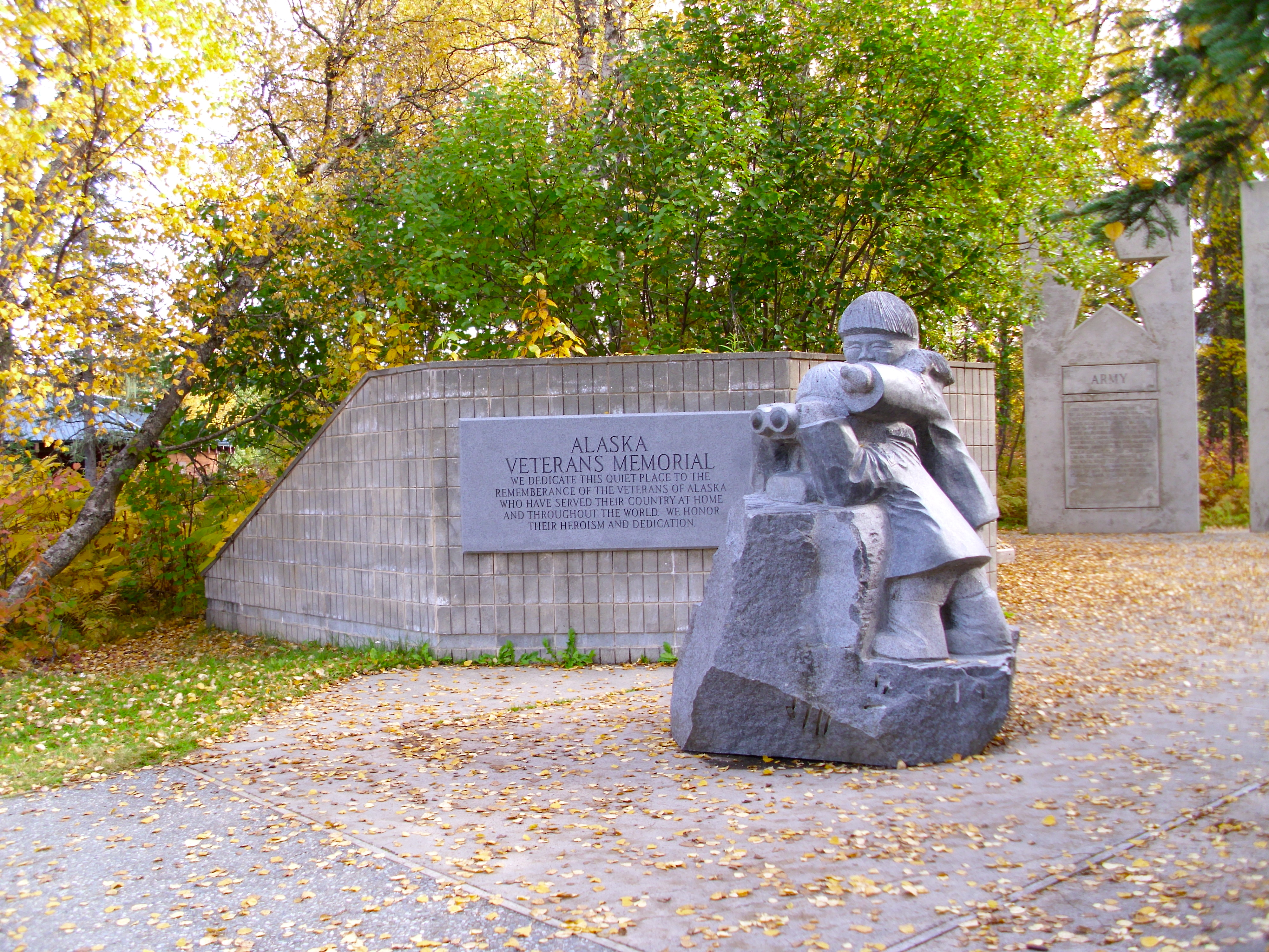 Entrance to the Alaska Veterans Memorial. A plaque dedicating the memorial is on the left, a sculpture representing the Alaska Territorial Guard is in the center